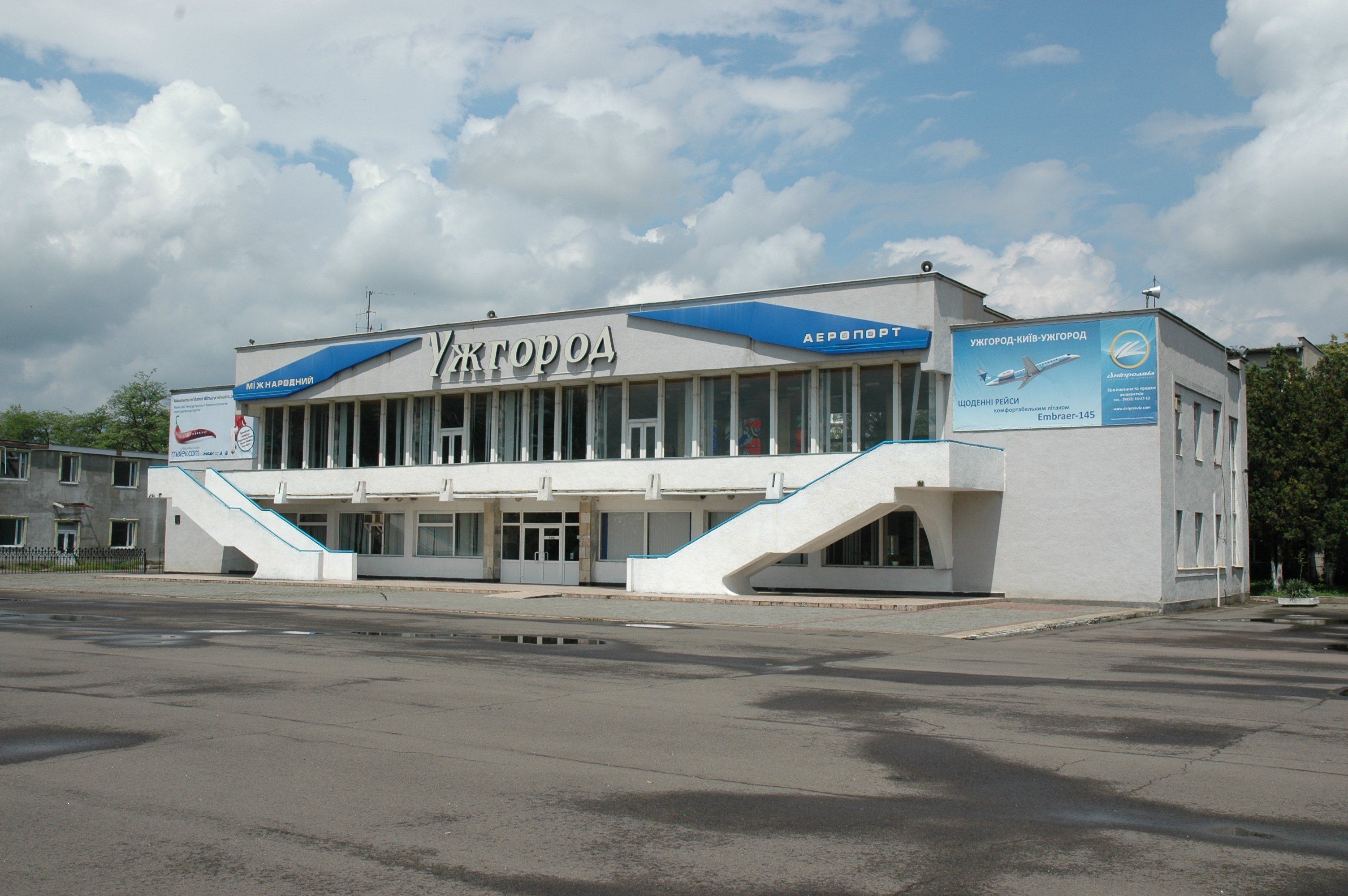 Uzhorod International Airport terminal